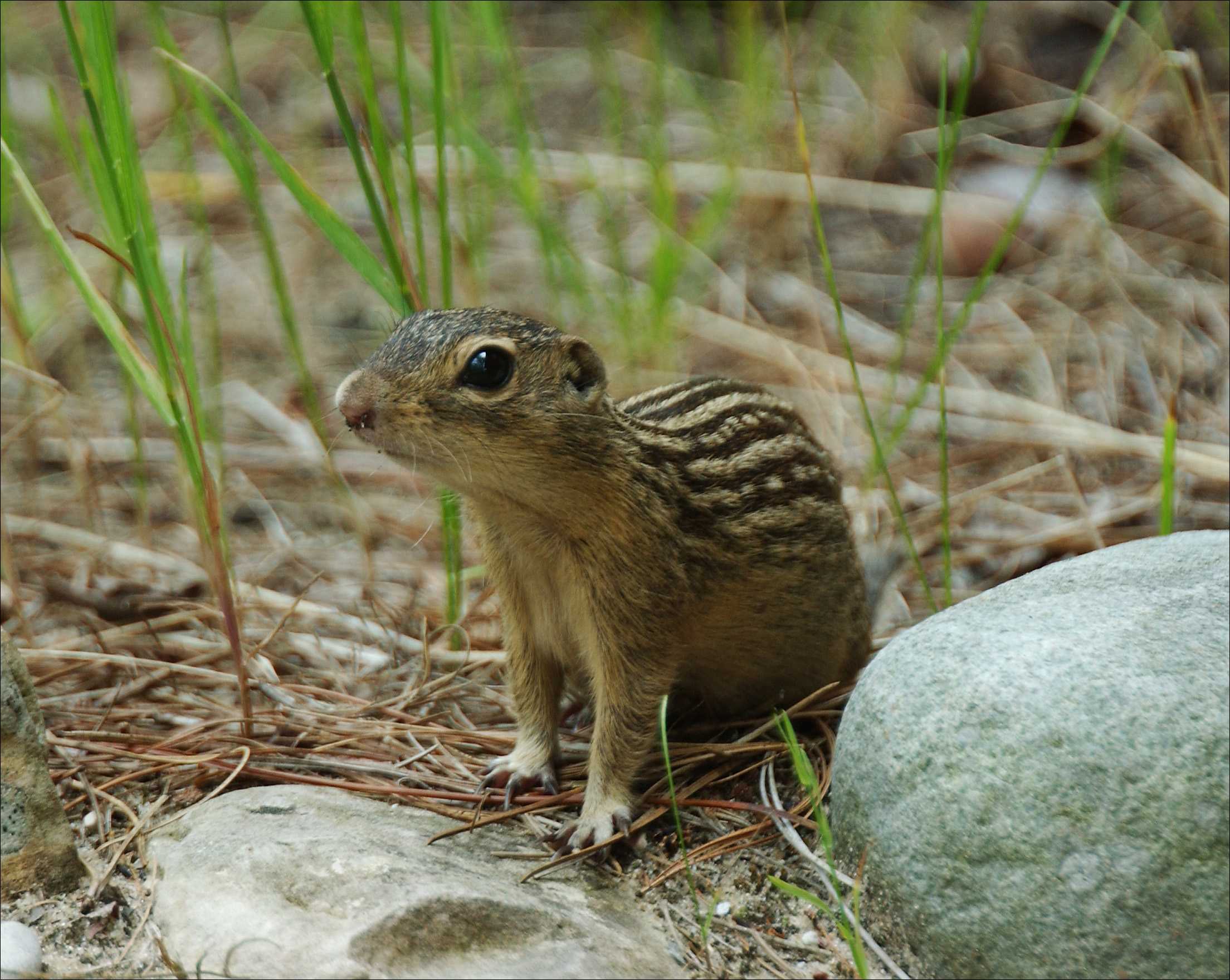 Ground Squirrel (Spermophilus tridecemlineatus)